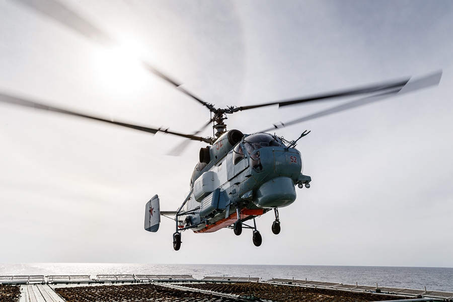 Permanent group of the Russian Navy in the Mediterranean Sea provides air defence in Syria